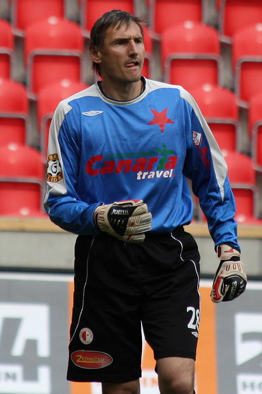 Martin Vaniak, Czech footbal goalkeeper, currently player of SK Slavia Prague, shot during preseasonal friendly match against FC Nitra